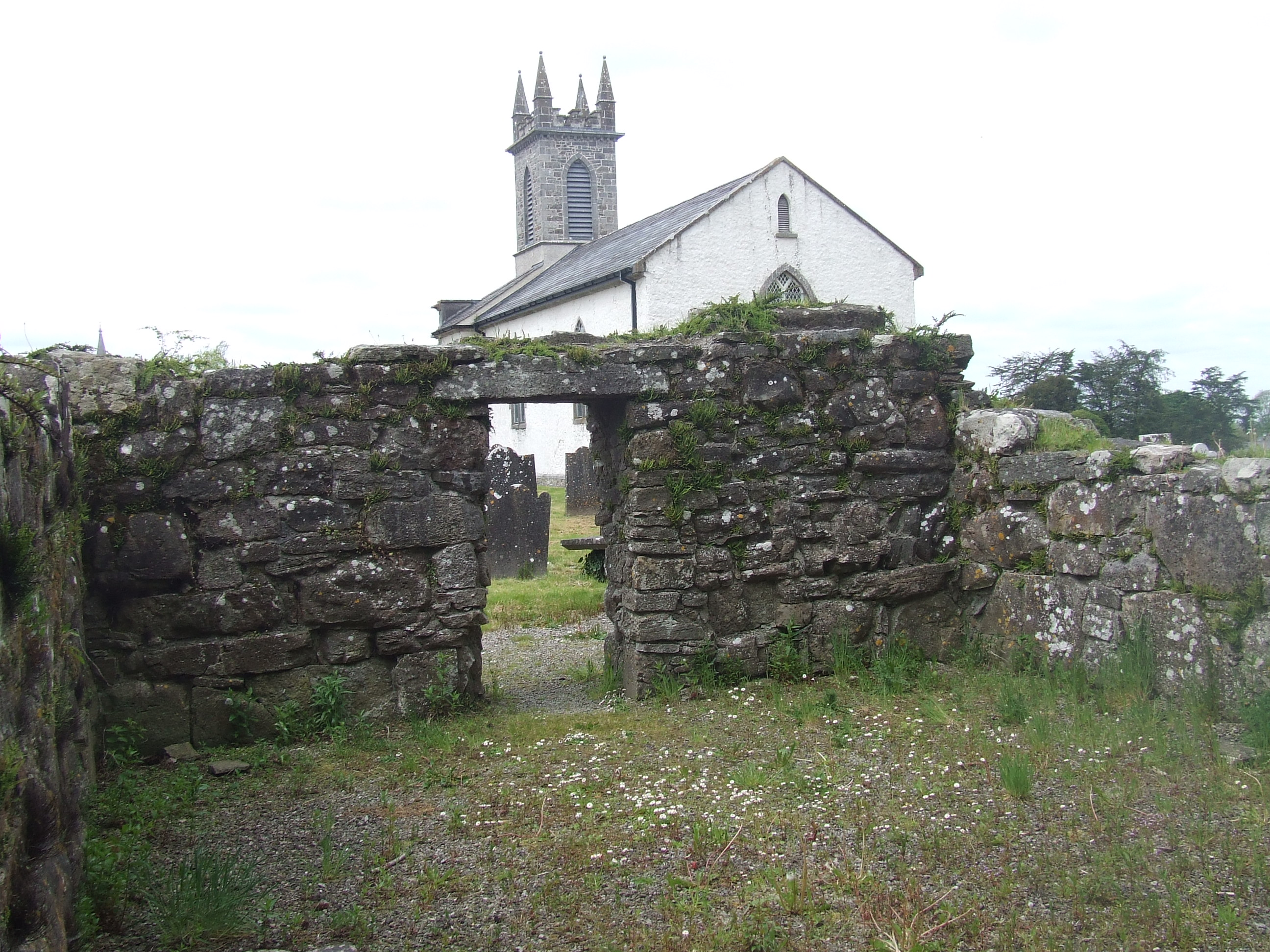 A view of the St Patrick's church from the interior ruins of St Mel's church, Ardagh.